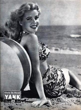 Pin-up photo of Gloria DeHaven for the Jun. 22, 1945 issue of Yank, the Army Weekly, a weekly U.S. Army magazine fully staffed by enlisted men.